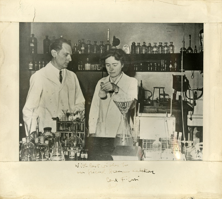 Chemists Carl and Gerty Cori in the lab, autographed photo. Black and white photographed (adhered to cardstock). Autographed by Carl Cori "With best wishes to our friend Herman Kalckar, Carl F. Cori".